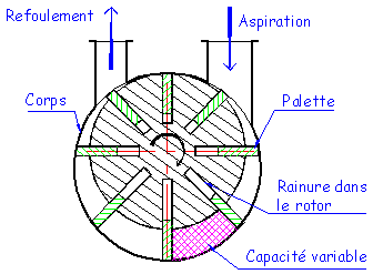 Function diagram of a vane compressor